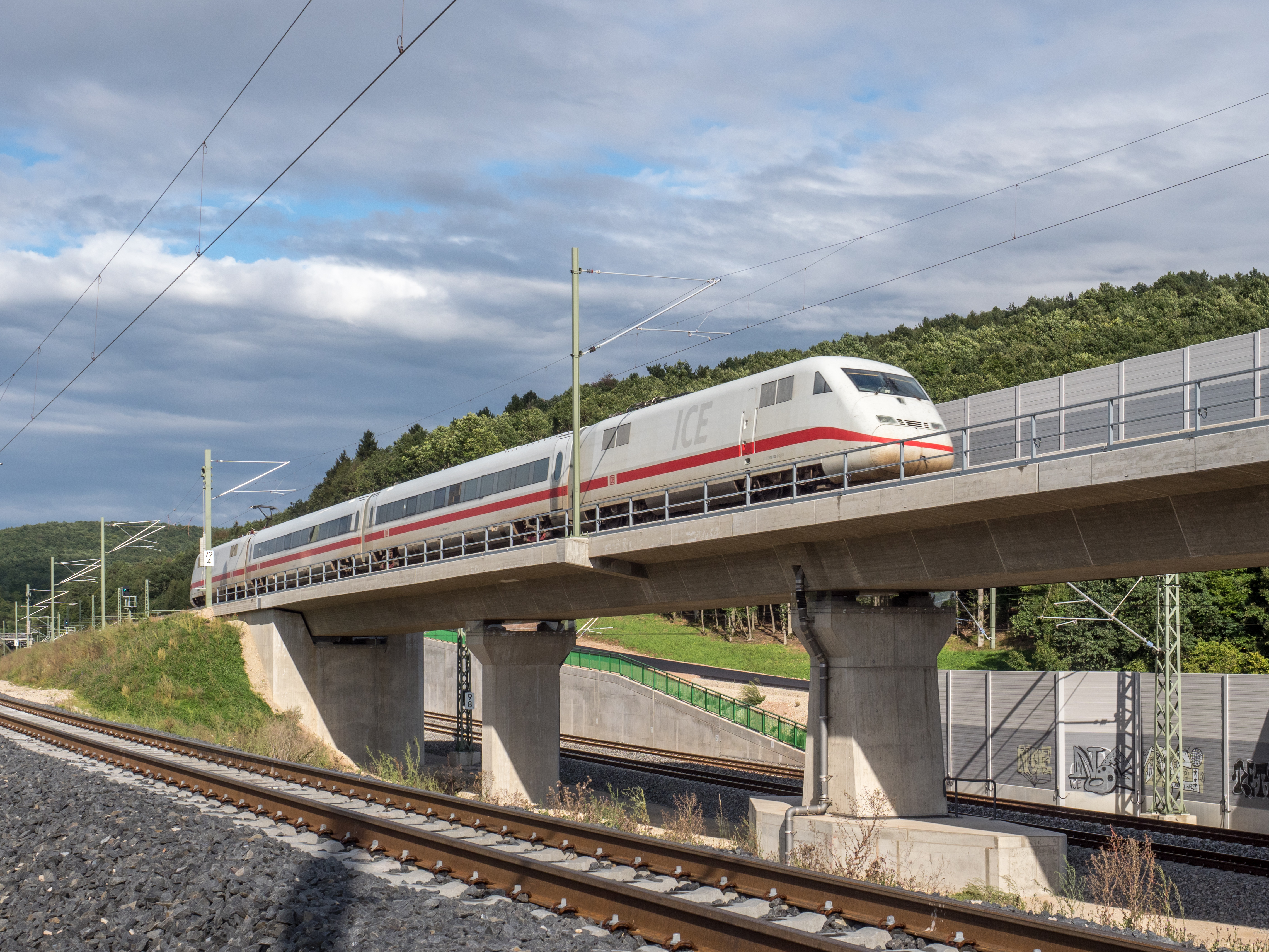 First test drive on the new overpass construction of the new line Breitengüßbach-Zapfendorf